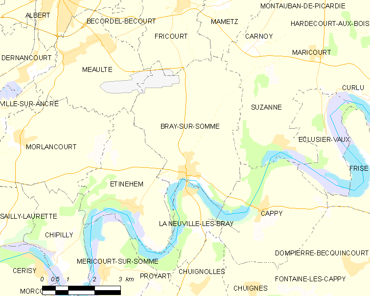 Map of French municipality Bray-sur-Somme